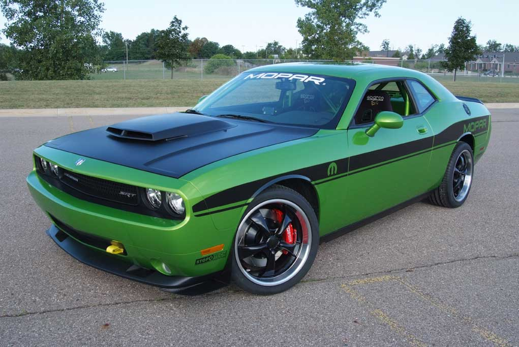 Mopar Underground.